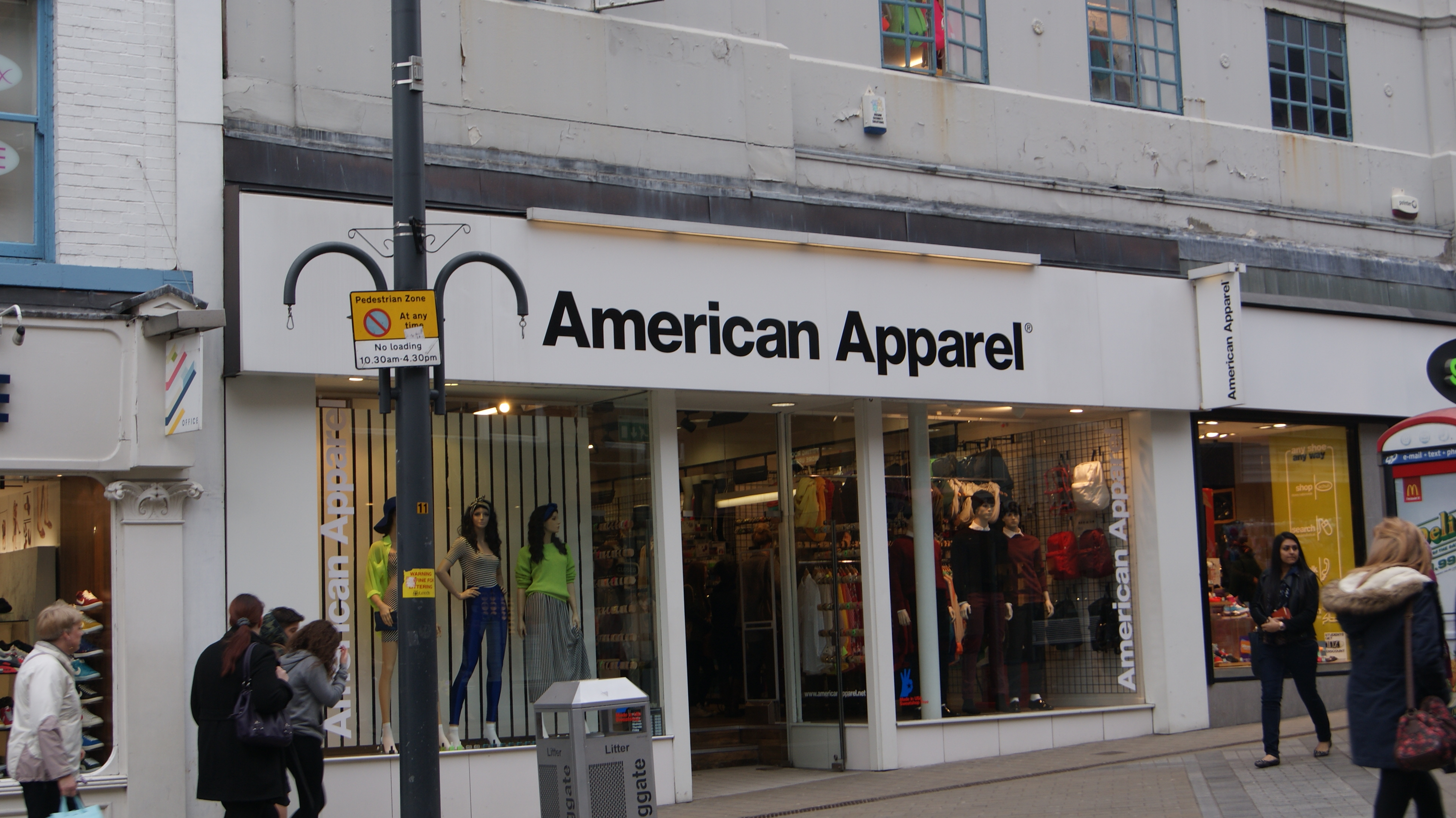 American Apparel, Briggate, Leeds, West Yorkshire. Taken on the afternoon of Wednesday the 20th of February 2013)